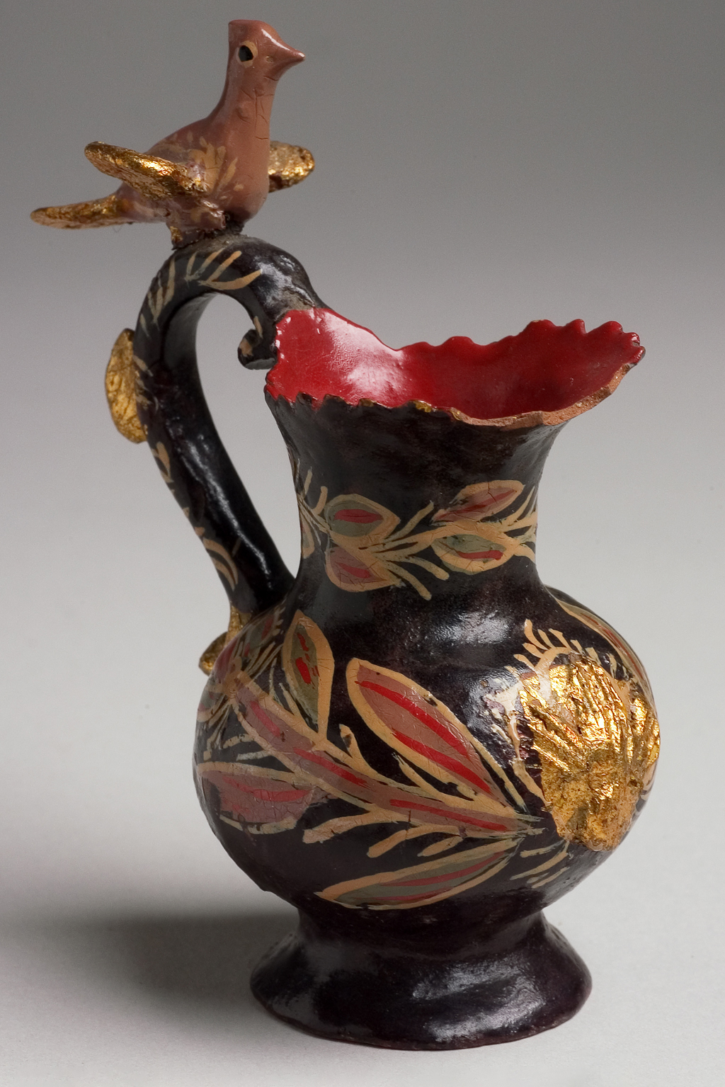 Miniature vase from Chile.